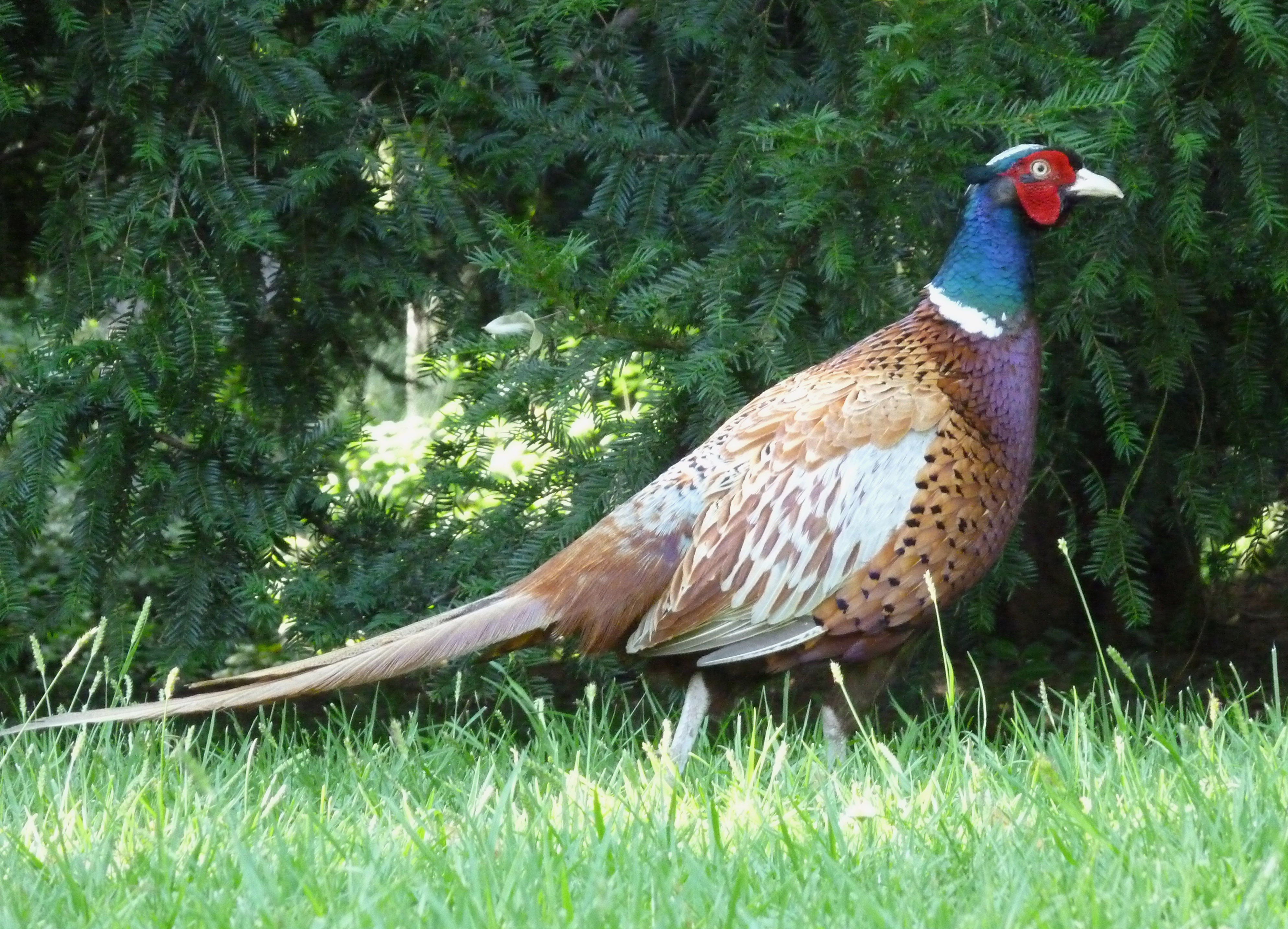 A male Common Pheasant (Phasianus colchicus) at Campo del Moro (gardens beside the Royal Palace) in Madrid (Spain).